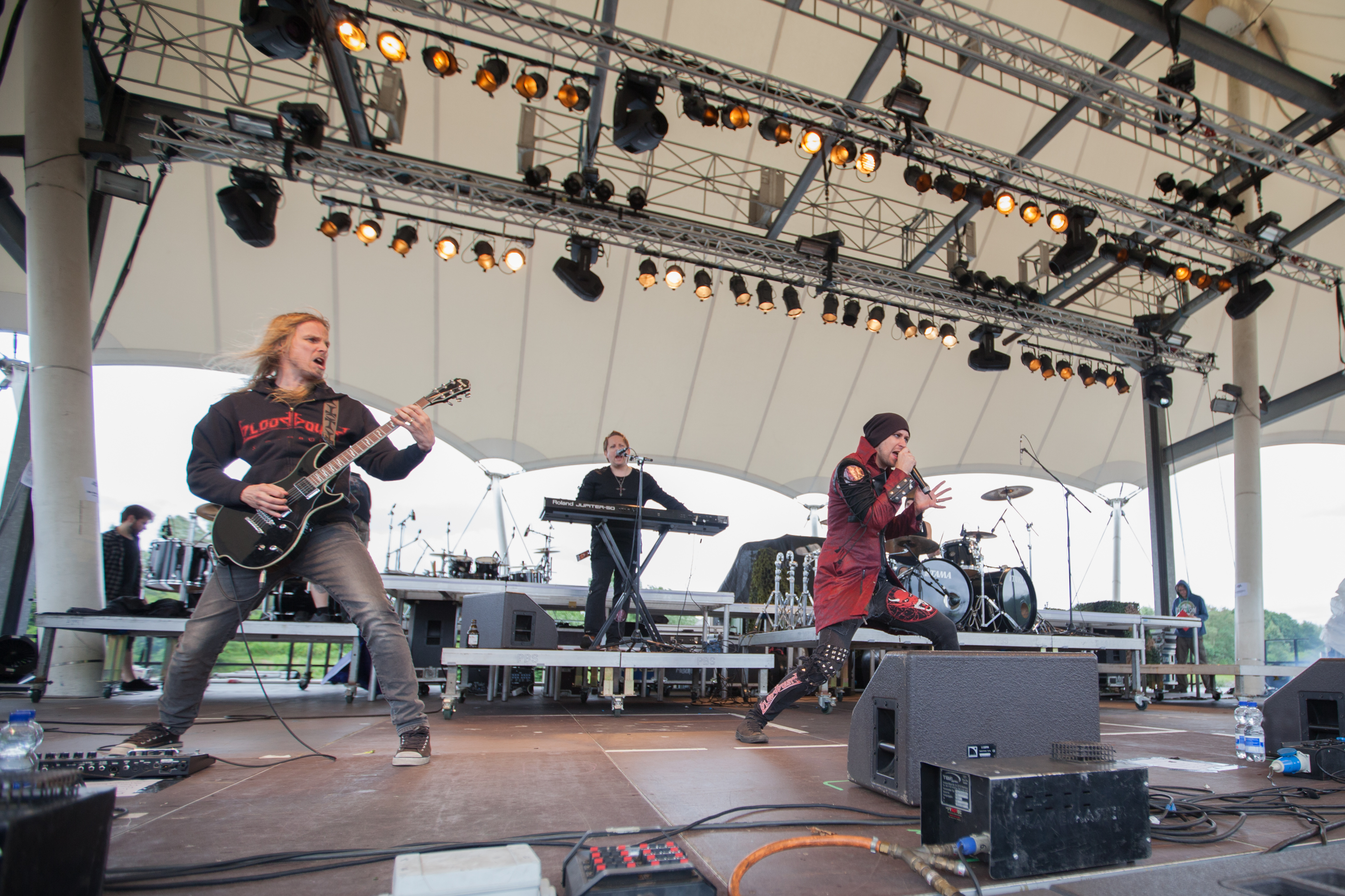 Bloodbound at Sabaton Open Air Deutschland / Noch ein Bier Fest 2015 on 2015/07/25 in Amphitheater, Gelsenkirchen, Germany